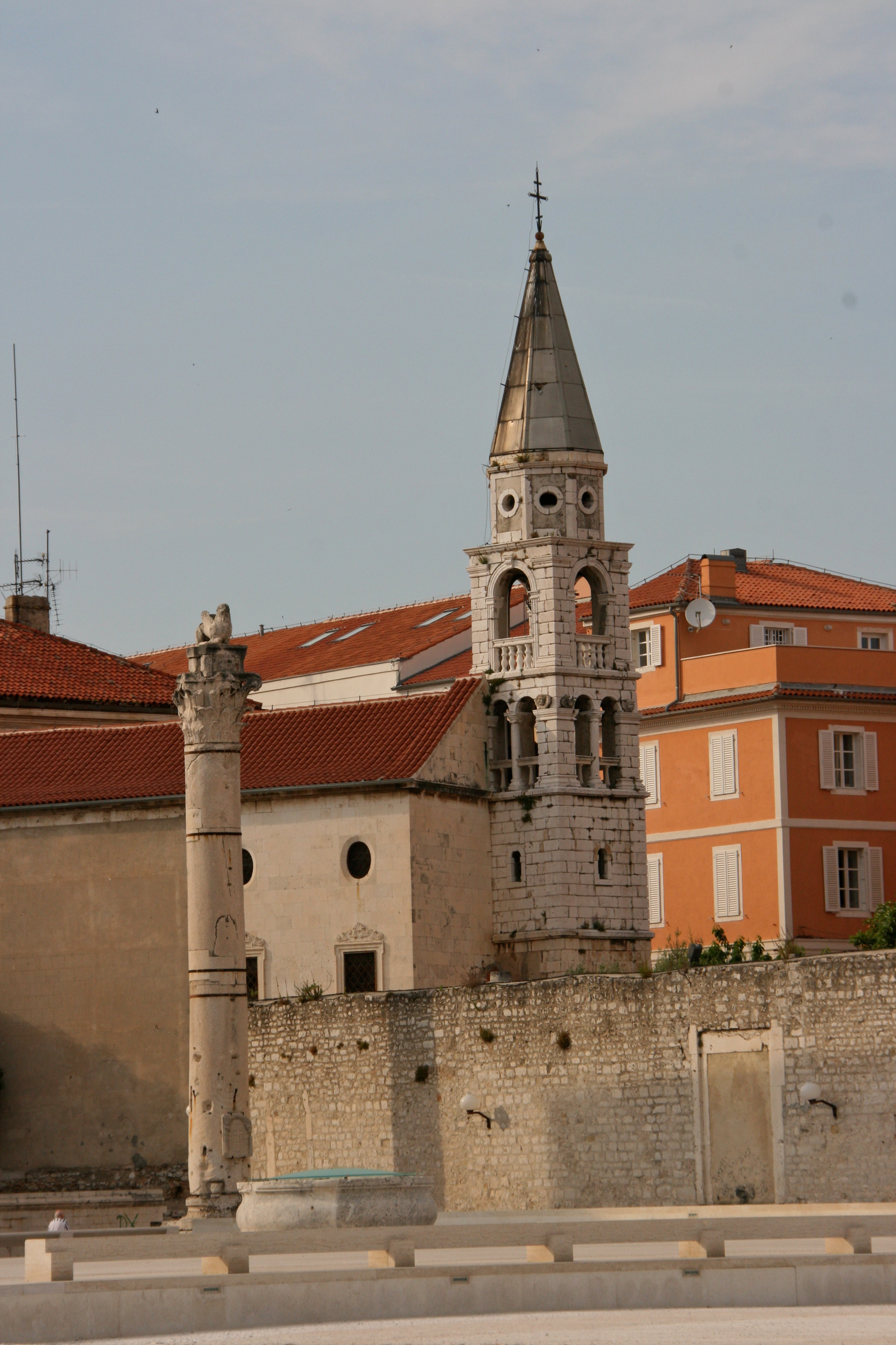 St. Elijah Church in Zadar, Croatia.